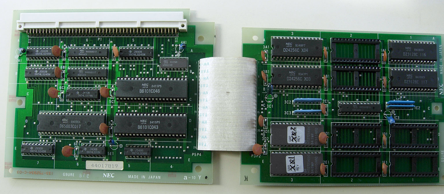 Kanji font ROM card installed in NEC PC-9801F, made in April 1984. There are 4 x 256 Kbit + 2 x 128 Kbit character ROMs. These ROMs contain 2,965 kanji glyphs of JIS Level 1 character set and 611 symbol glyphs. Empty sockets are used to add an optional JIS Level 2 character ROM kit and the Extended Kanji (NEC extensions) ROM kit. The card also has 2 x 16 Kbit static RAMs for additional text buffer, and a 16 Kbit SRAM for storing 63 glyphs of gaiji.